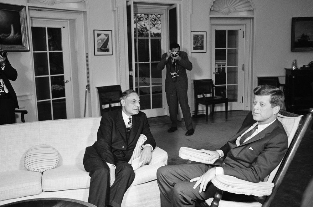 President John F. Kennedy (in rocking chair) meets with the Ambassador of India, B. K. Nehru. LOOK Magazine photographer, Stanley Tretick, stands in the background (center). Oval Office, White House, Washington, D.C.